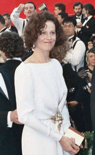 Sigourney Weaver with her father Pat Weaver on the red carpet at the at the 61st Annual Academy Awards, 1989. Scanned from the original 35MM film negative.